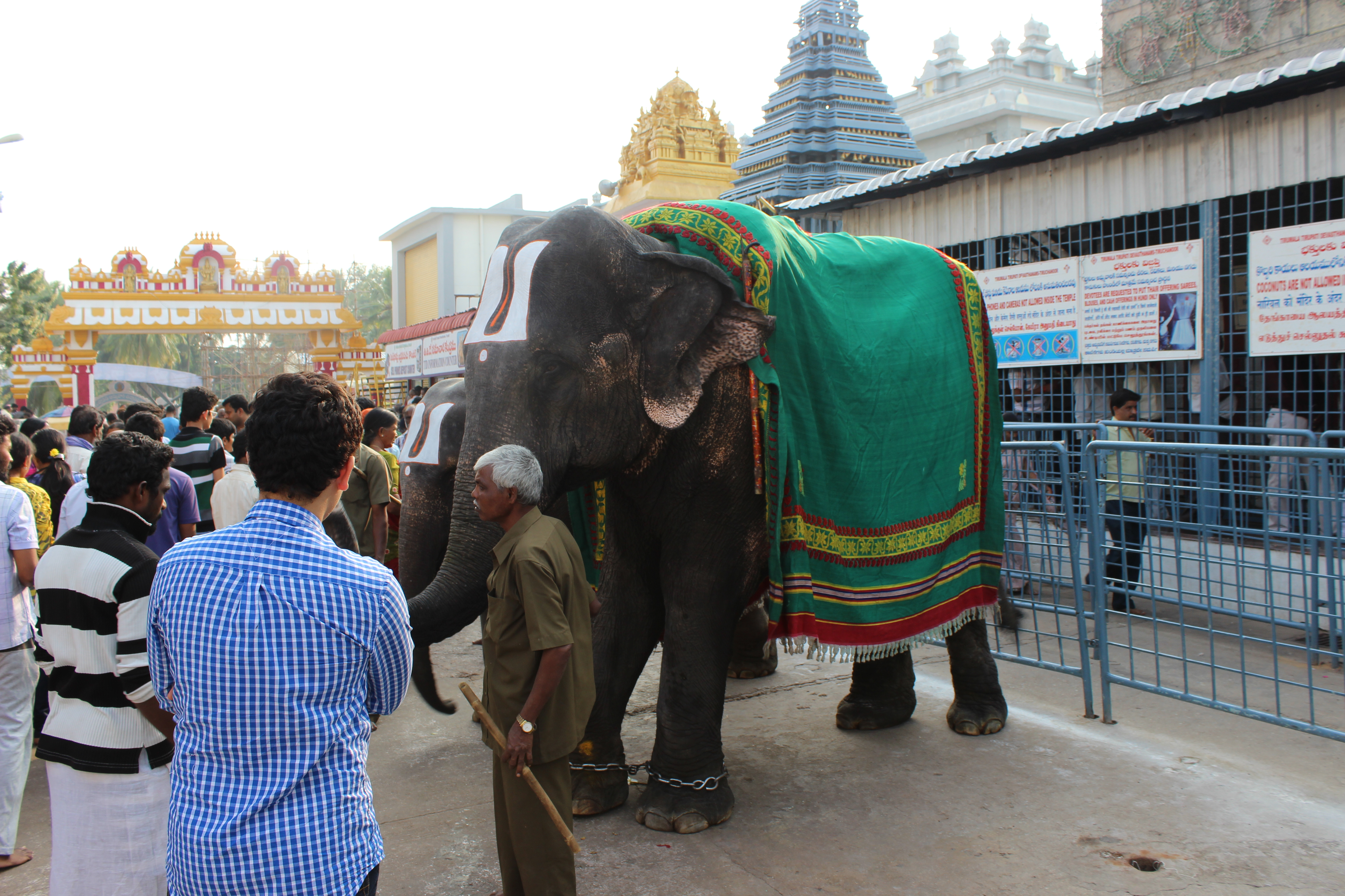 Thiruchanur